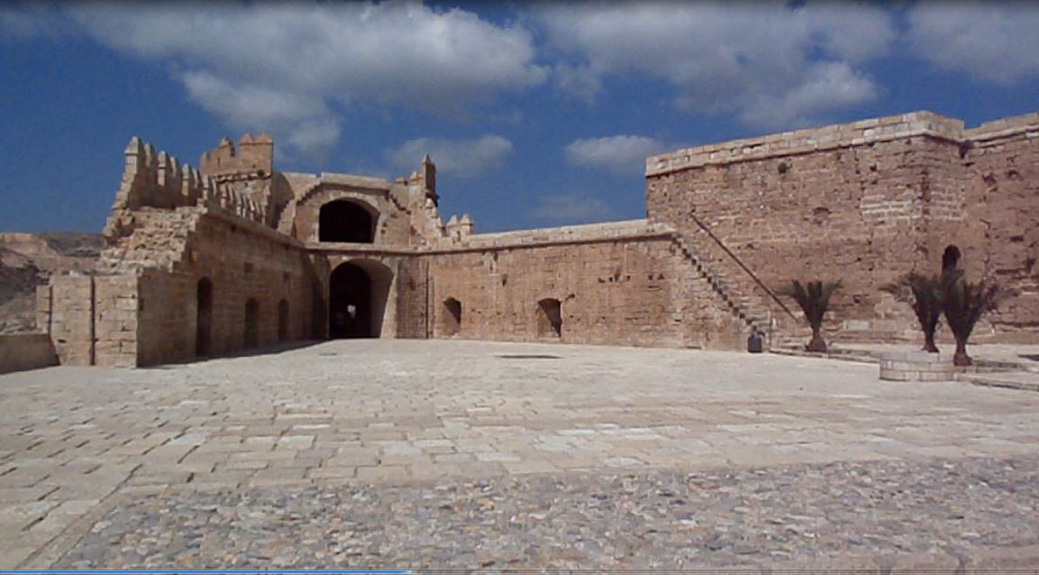 Upper courtyard featured in Queen of Swords episode "Destiny"